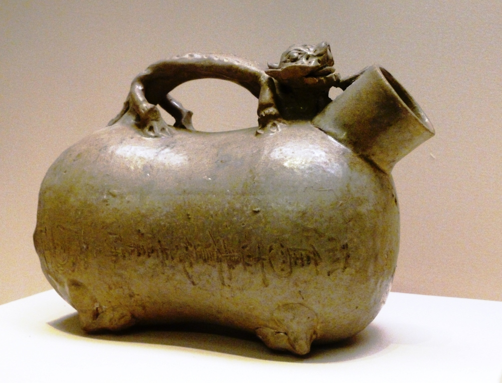 This ancient urine bottle for males was on display in the National Museum in Beijing when I visited it in June 2011